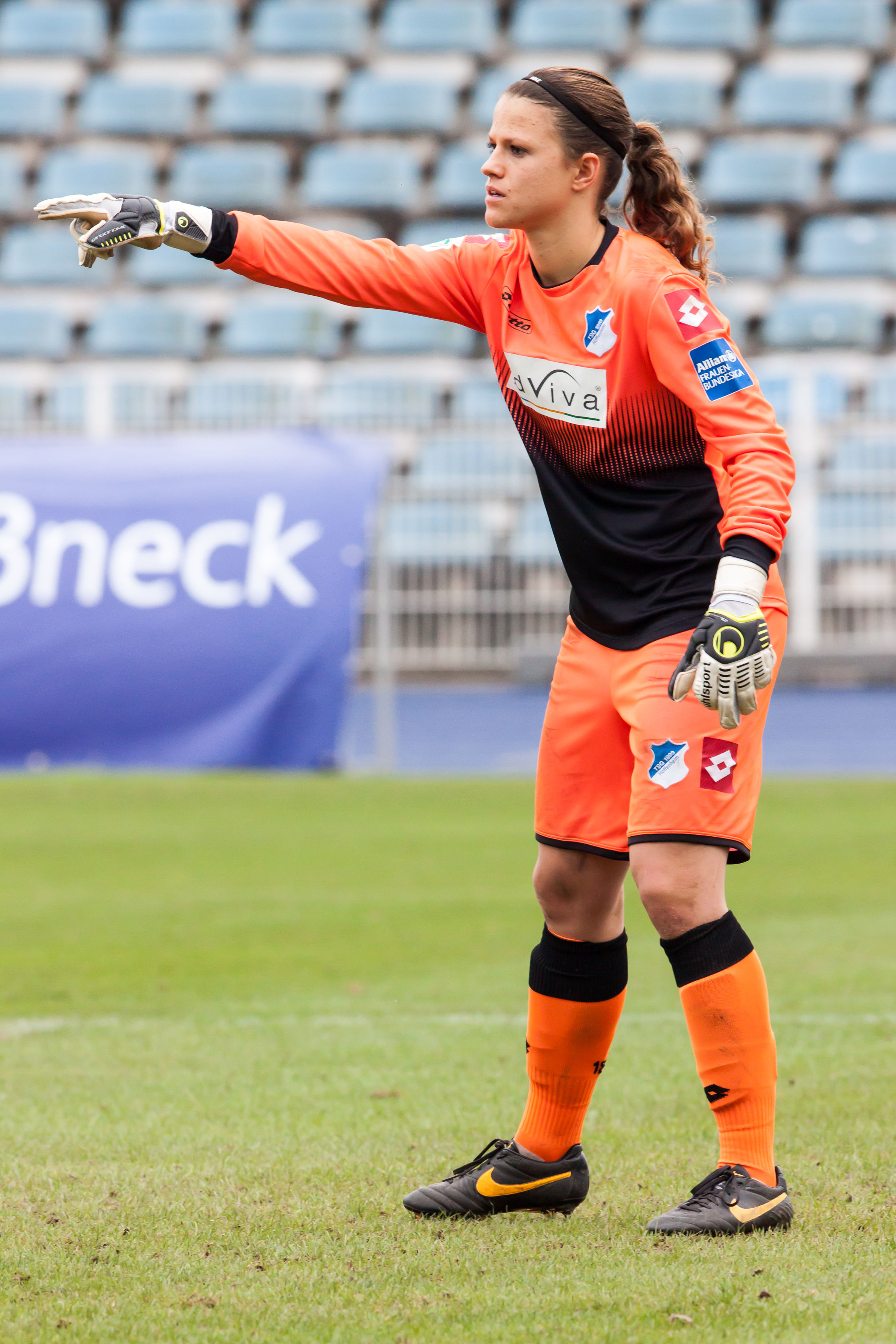 German Women Bundesliga soccer game: FF USV Jena vs. TSG 1899 Hoffenheim, 2014-10-11, at Ernst-Abbe-Sportfeld Jena.